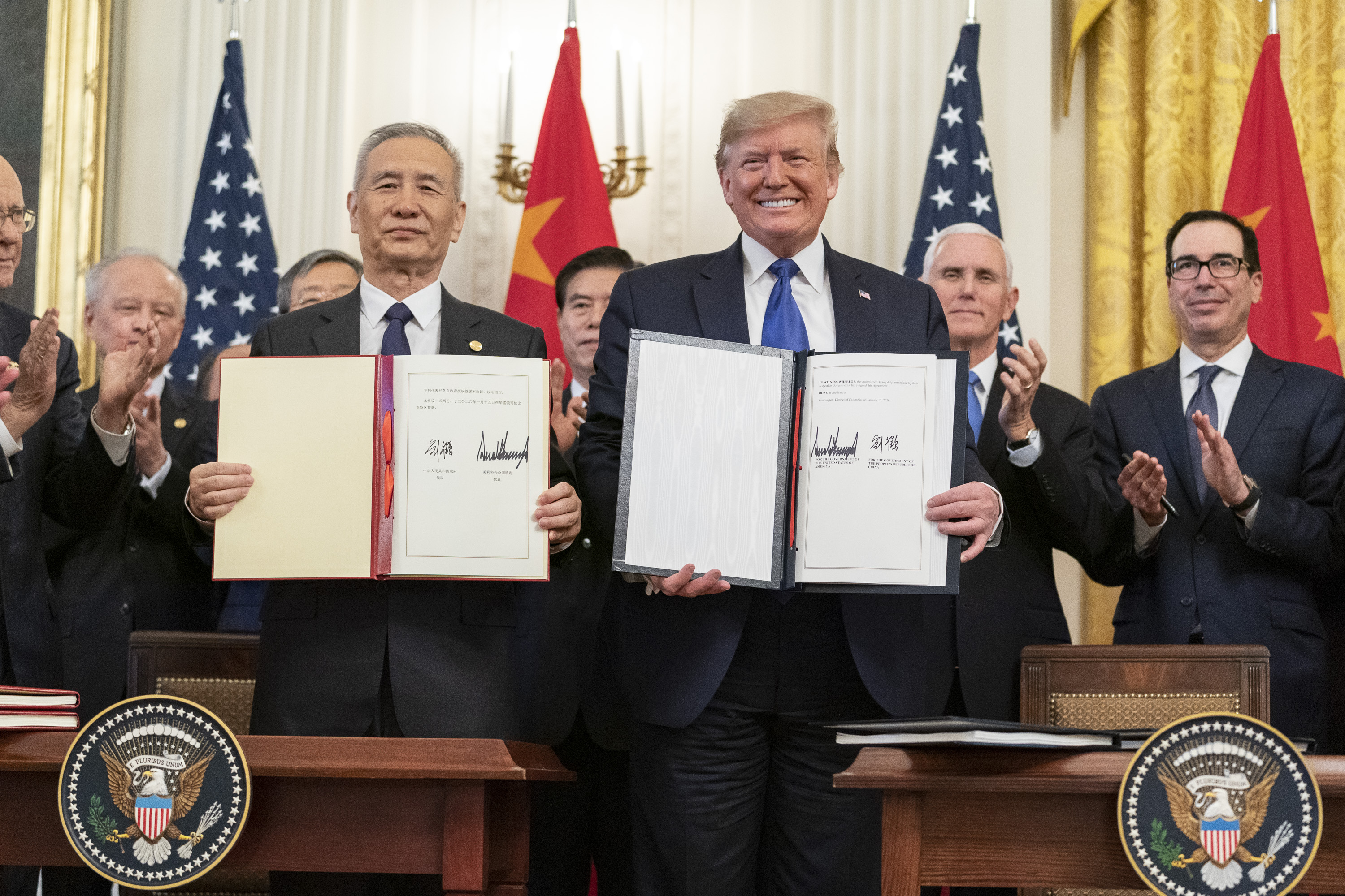 President Donald J. Trump, joined by Chinese Vice Premier Liu He, sign the U.S. China Phase One Trade Agreement Wednesday, Jan. 15, 2020, in the East Room of the White House. (Official White House Photo by Shealah Craighead)